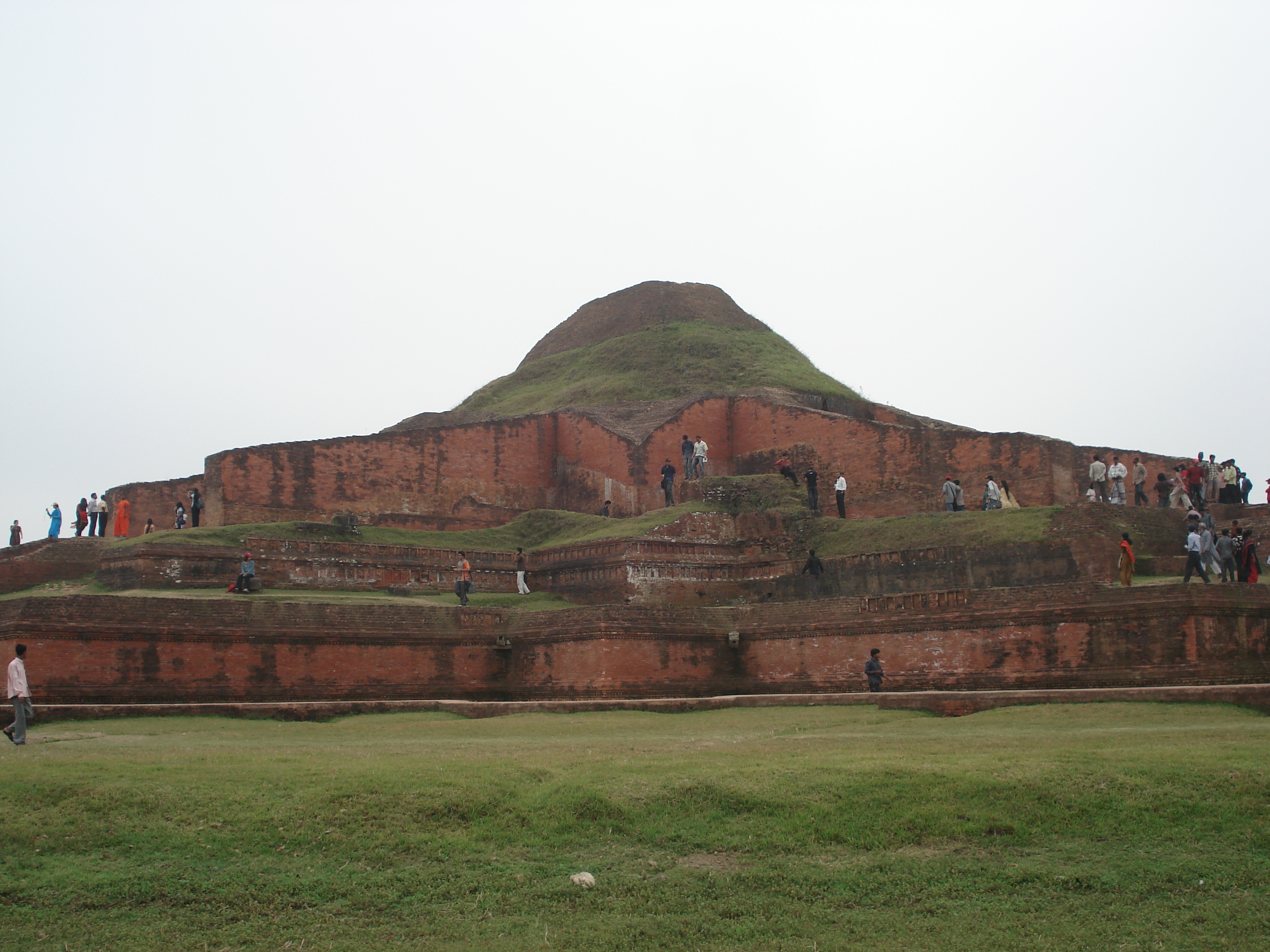 Somapura Mahavihara in Paharpur, Bangladesh, is the greatest Buddhist Vihara in the Indian Subcontinent, built by Dharmapala of Bengal. Ruins of Buddhist Vihara. Somapura Mahavihara is the greatest Buddhist Vihara in the Indian Subcontinent built by Dharmapala of Bengal; it became a World Heritage Site in 1985. Somapura Mahavihara is the greatest Buddhist Vihara in the Indian Subcontinent built by Dharmapala.